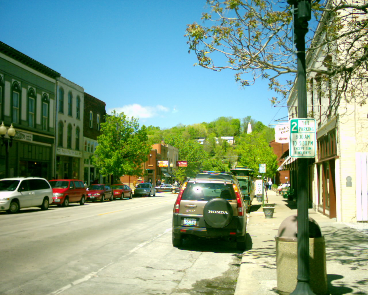 Hannibal, Missouri